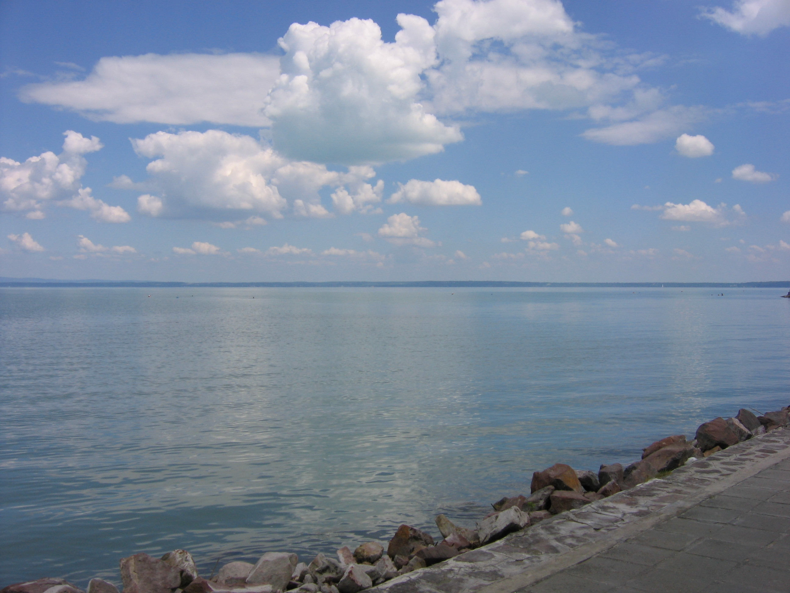 Lake Balaton